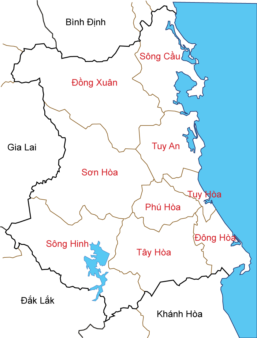 Map of Phu Yen province and its district